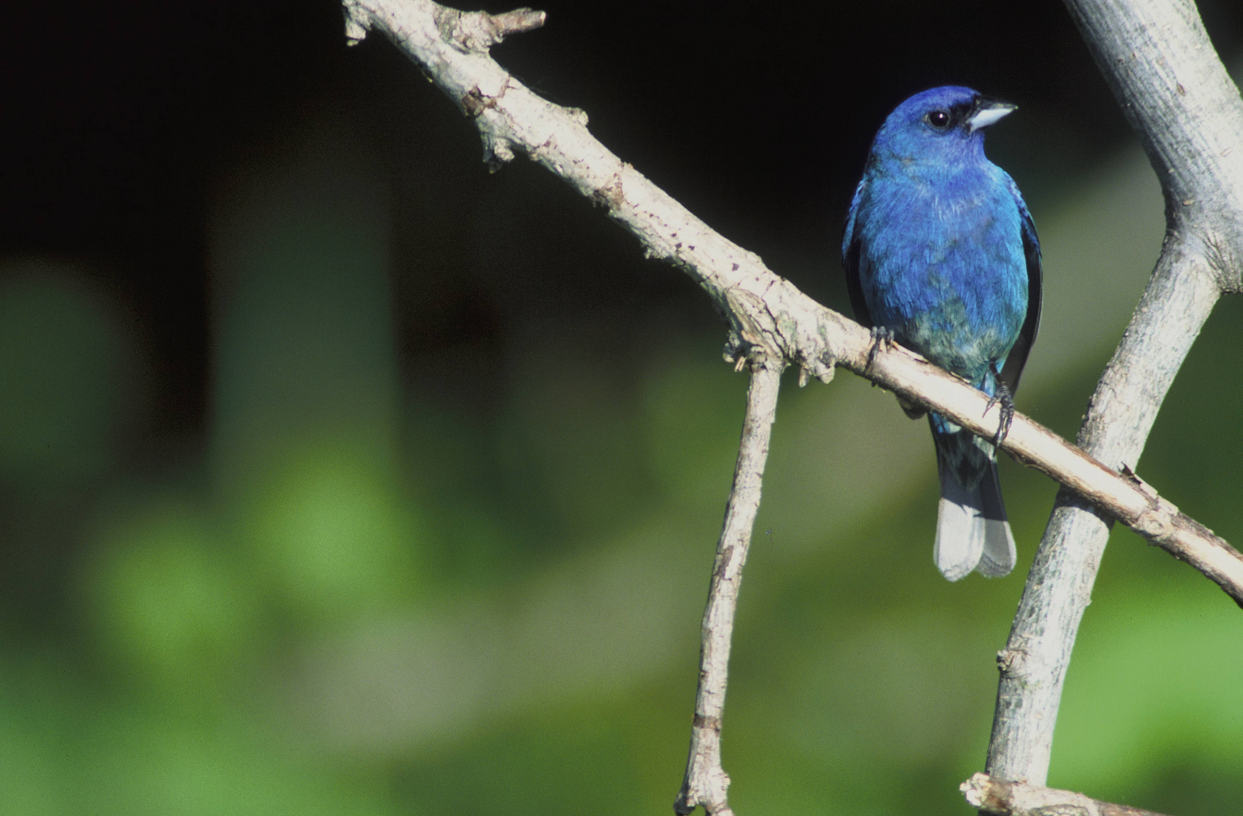 Indigo Bunting (Passerina cyanea) in the DeSoto National Wildlife Refuge in Iowa